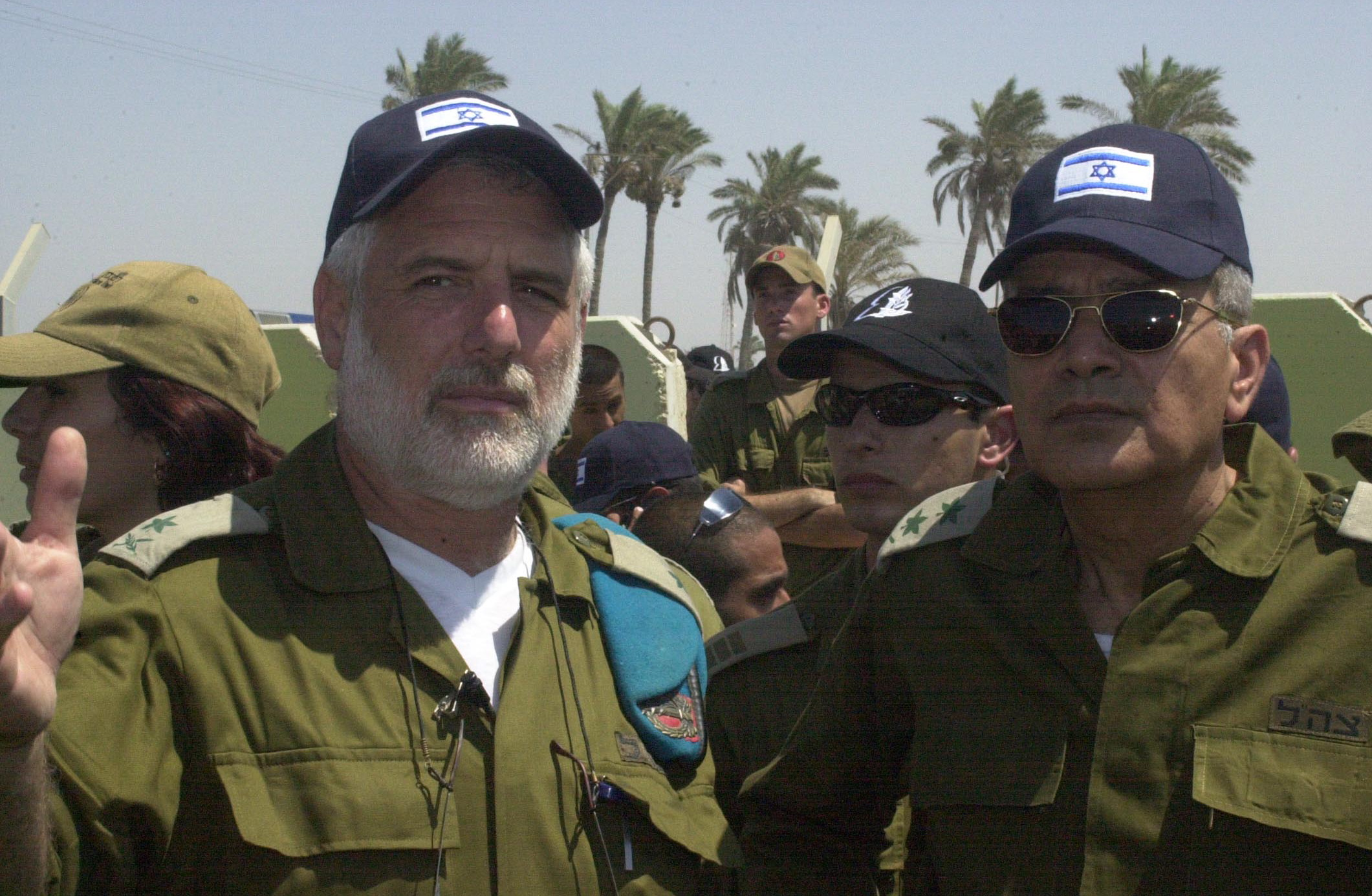 August 18, 2005. Then-Chief of the General Staff, Lt. Gen. Dan Halutz, and then-OC Southern Command, Maj. Gen. Dan Harel, visit during the evacuation of the Israeli community of Shirat Hayam. The evacuation of Shirat Hayam was part of the Gaza Disengagement, which occurred during the summer of 2005.